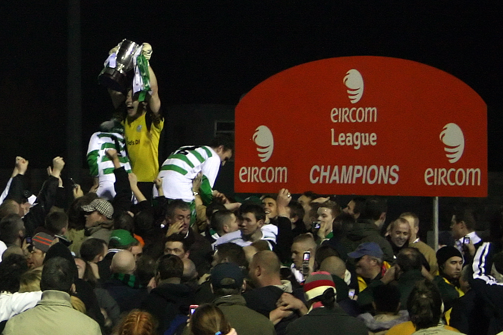 Barry Murphy holding the eircom league first division trophy, Nov 2006